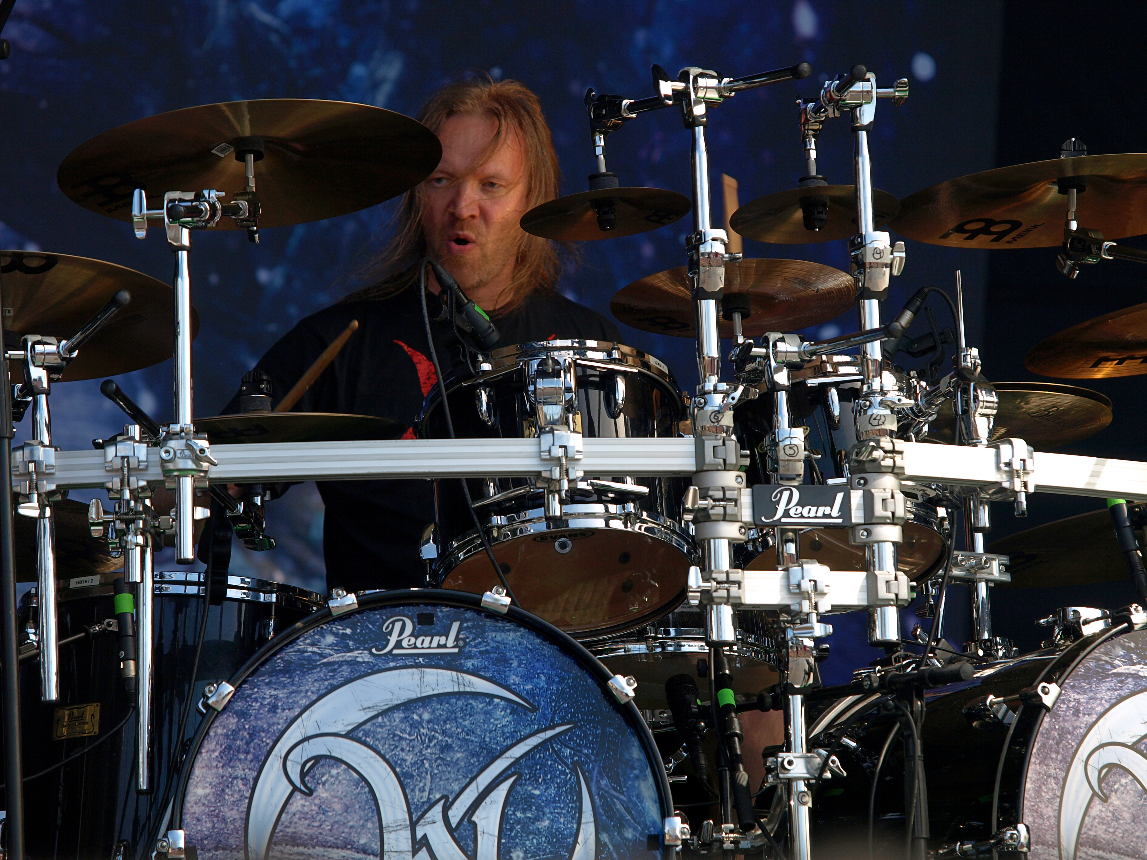 Finnish metal band Wintersun live at Tuska Open Air 2013